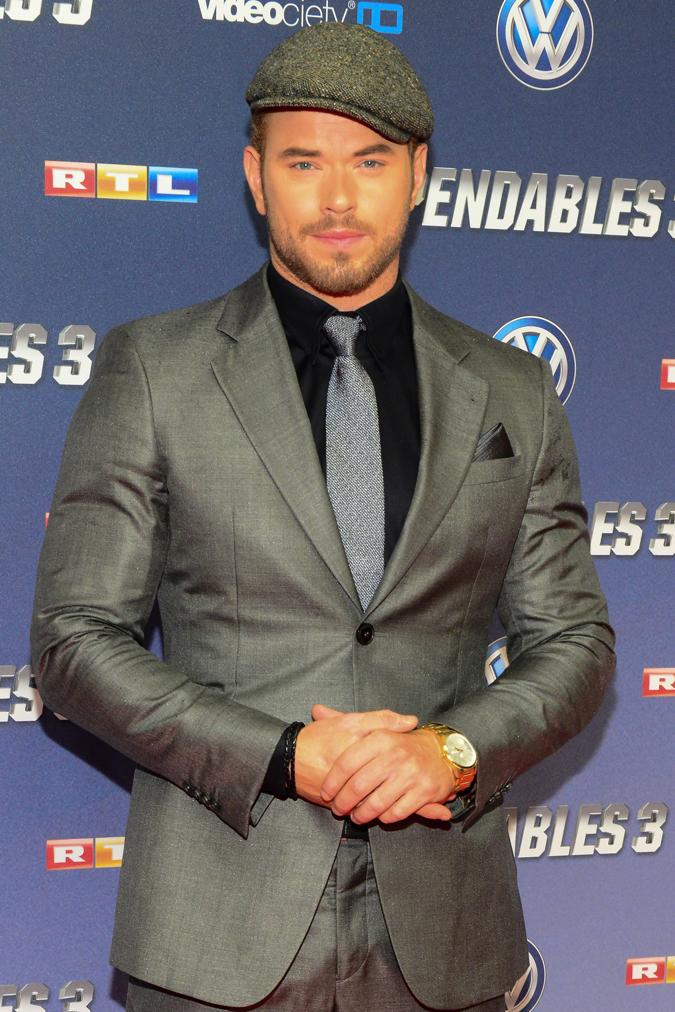 Kellan Lutz attend the German premiere of the film "The Expendables 3" at Residenz cinema on August 6, 2014 in Cologne, Germany.